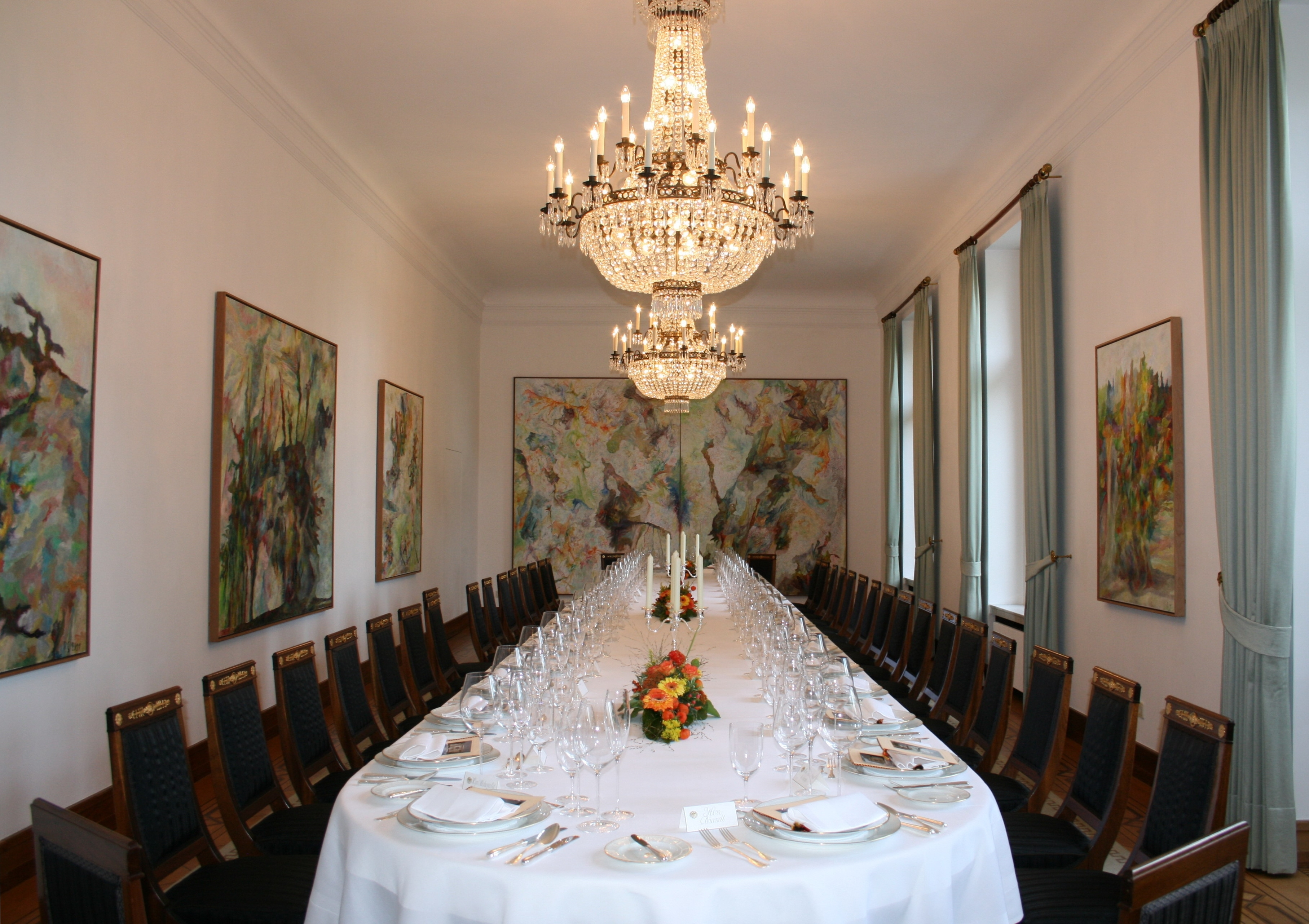 Villa Hammerschmidt, second residence of german president in Bonn, Germany (dining room, served for the maximum of 36 guests. The paintings are works by the German painter Bernard Schultze.